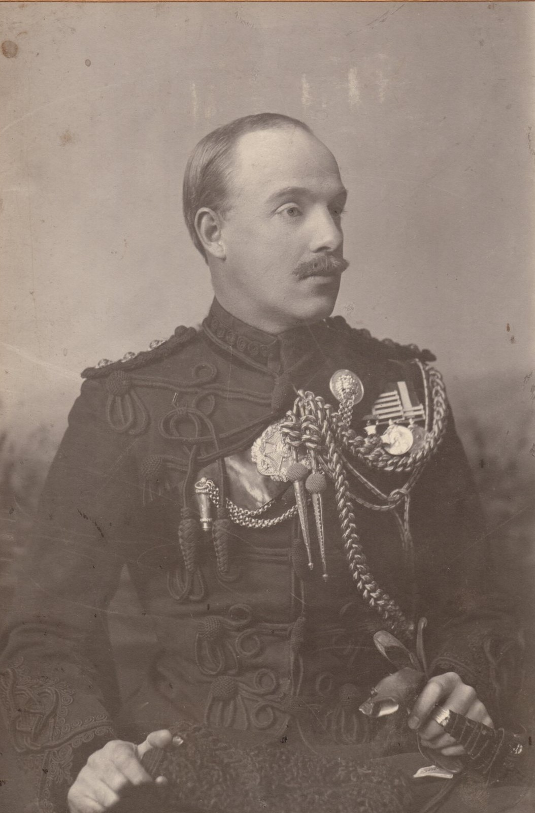 This picture would appear to have been taken in the late 1890's. It shows Sir Thomas Andrew Alexander Montgomery-Cuninghame as a young man.